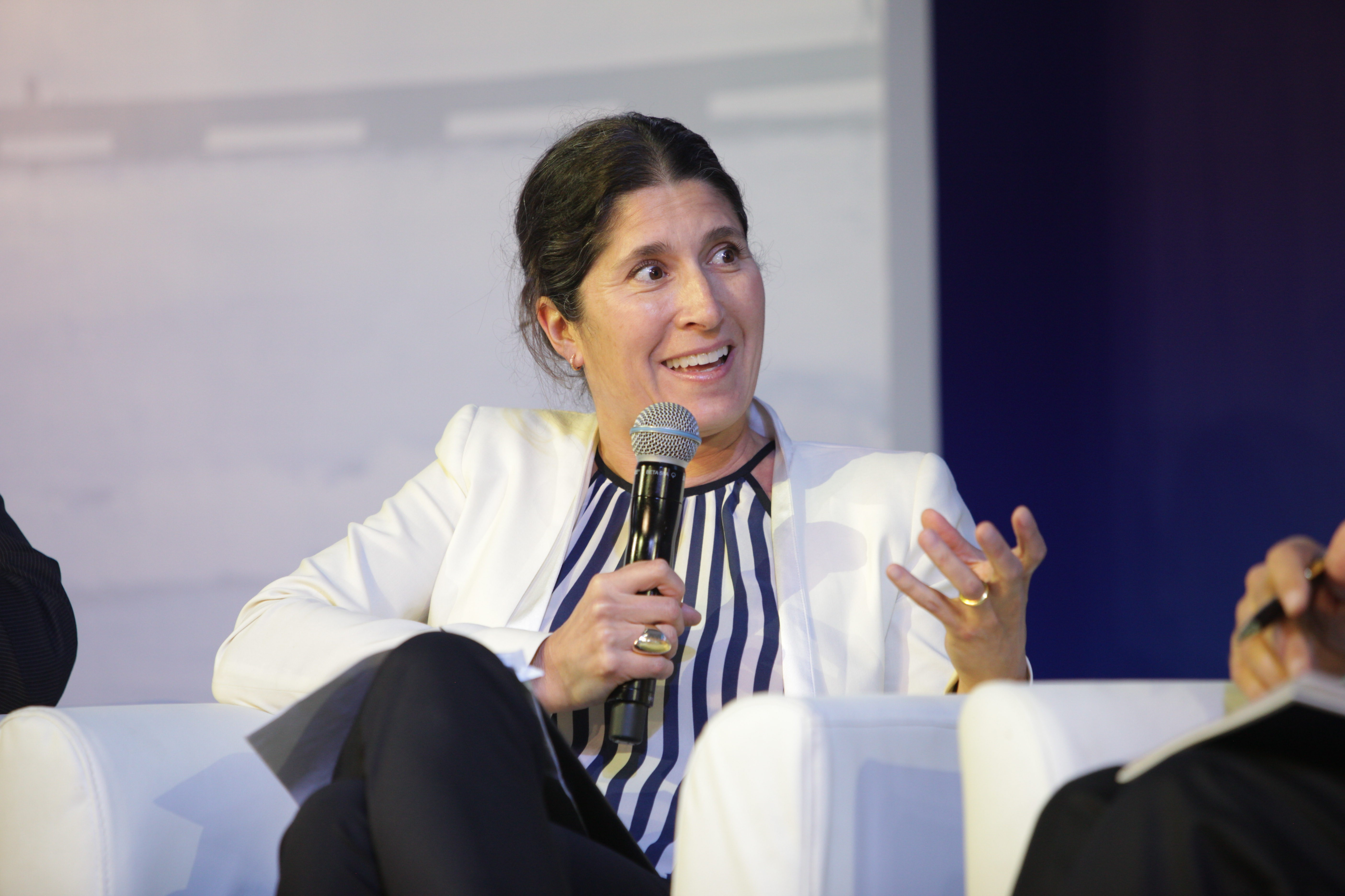 Pilar Guzmán, Editor in Chief, Conde Nast Traveler, World Travel & Tourism Council Flickr images